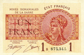 French Franc (1923) issued by the national mines of the Saar territory